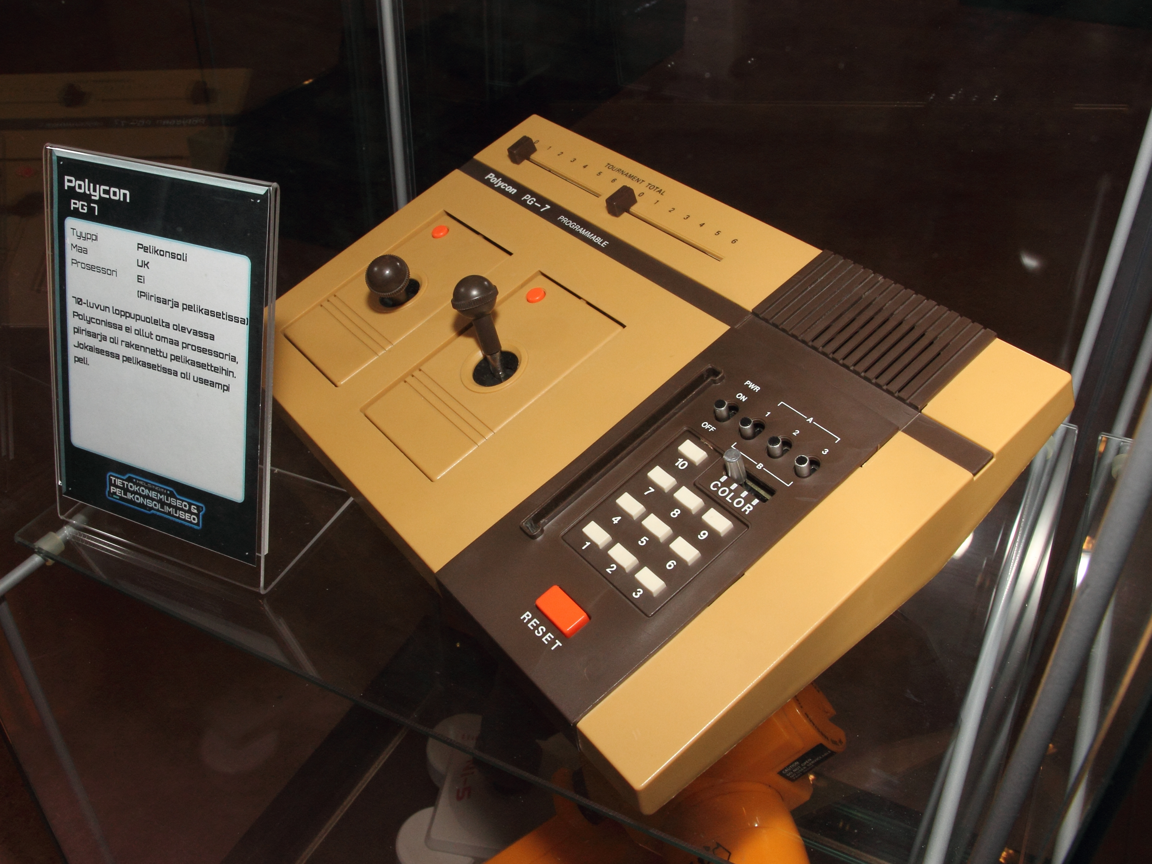 Polycon PG-7 (197?) game console in Helsinki Computer and game console museum. Could belong to the PC-50x family of pong consoles